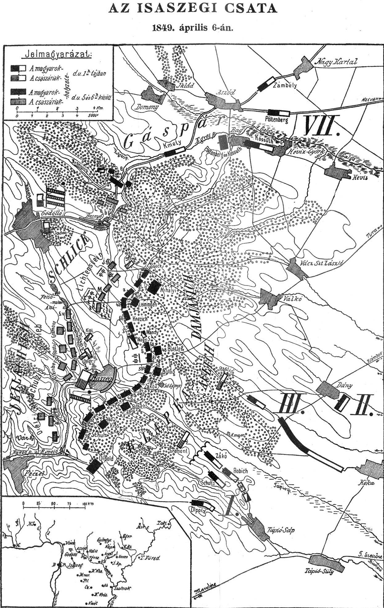 A map about the battle of Isaszeg, fought on 6 April 1849 between the Hungarian revolutionary army and the Hapsburg imperial troops.